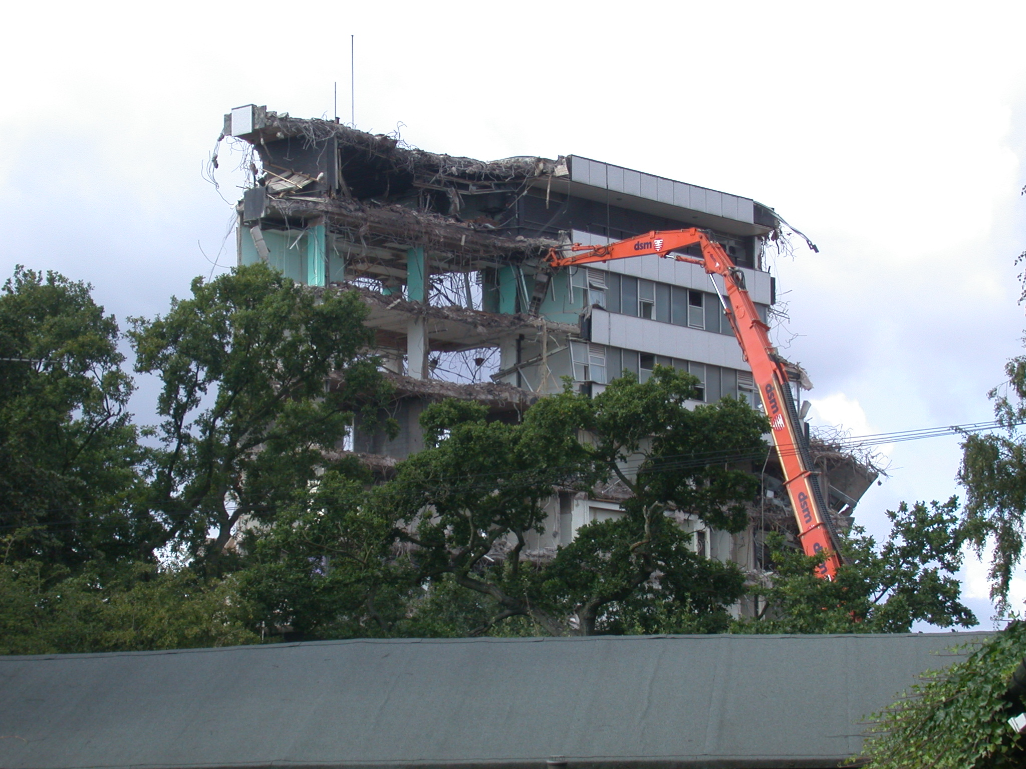 Demolition of the former BBC Pebble Mill television studios, Birmingham, England.